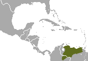 Ursine Howler (Alouatta arctoidea) range IUCN: Alouatta arctoidea Cabrera, 1940 (old web site) (Least Concern) Mammal Species of the World (v3, 2005) link: Alouatta seniculus arctoidea Cabrera, 1940